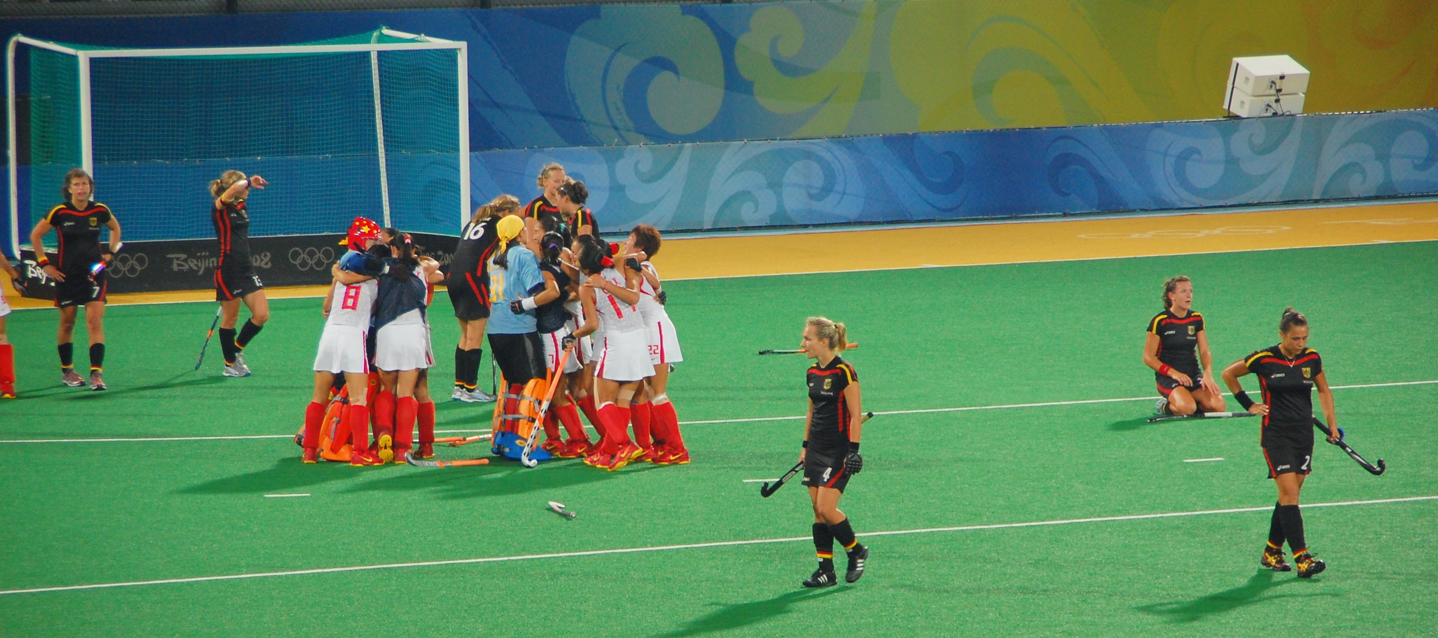 China won the semi-final 3-2 ..